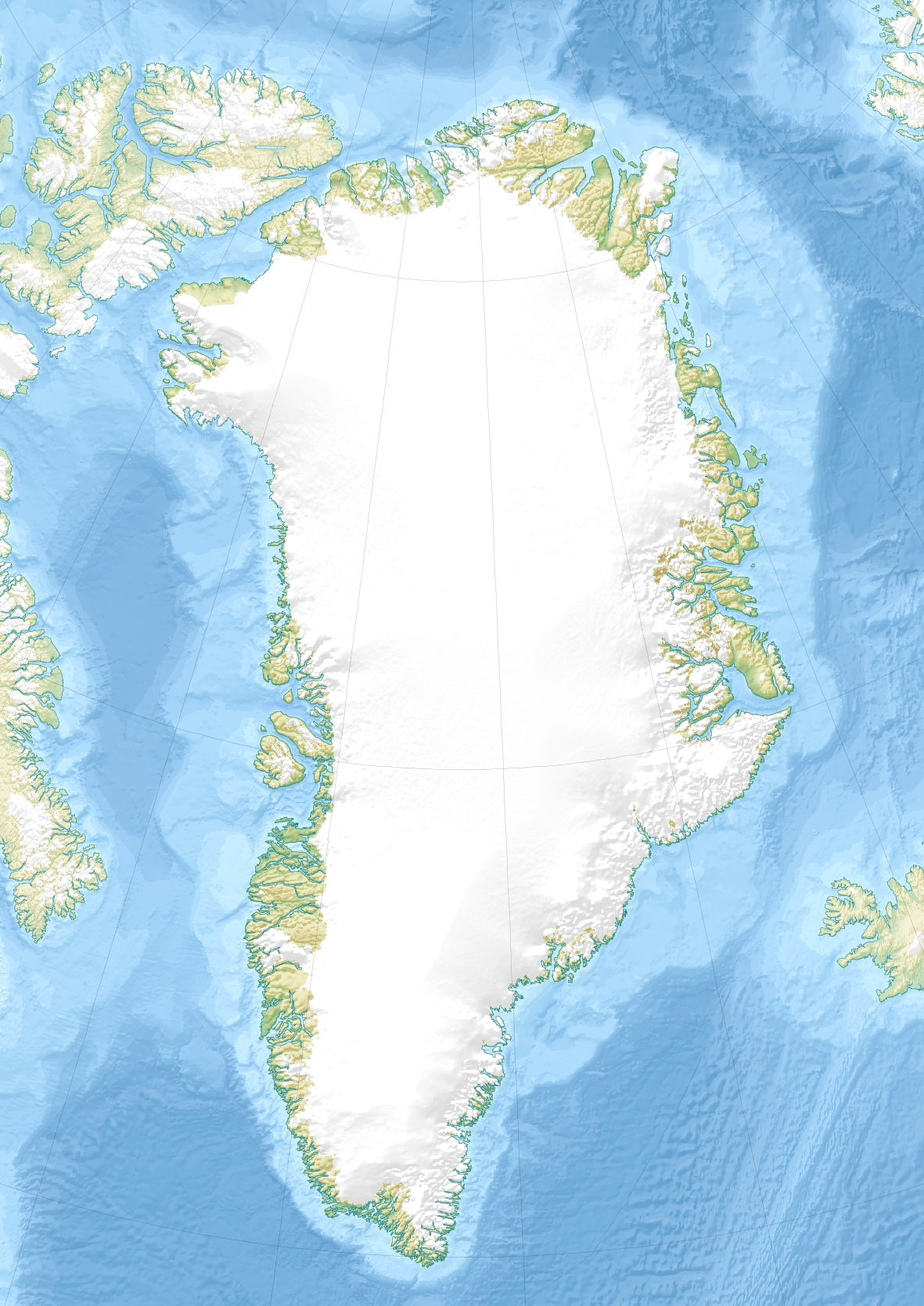 Relief location map of Greenland. Projection: EquiDistantConicProjection. Area of interest: N: 85.0° N S: 59.0° N W: -75.0° E E: -10.0° E Projection center: NS: 72.0° N WE: -42.5° E Standard parallels: 1: 64.0° N 2: 80.0° N GMT projection: -JD-42.5/72/64/80/20c GMT region: -R-60.16/57.61/24.5/79.91r GMT region for grdcut: -R-120.24/57.61/24.5/85.78r Relief: SRTM30plus. Made with Natural Earth. Free vector and raster map data @ .